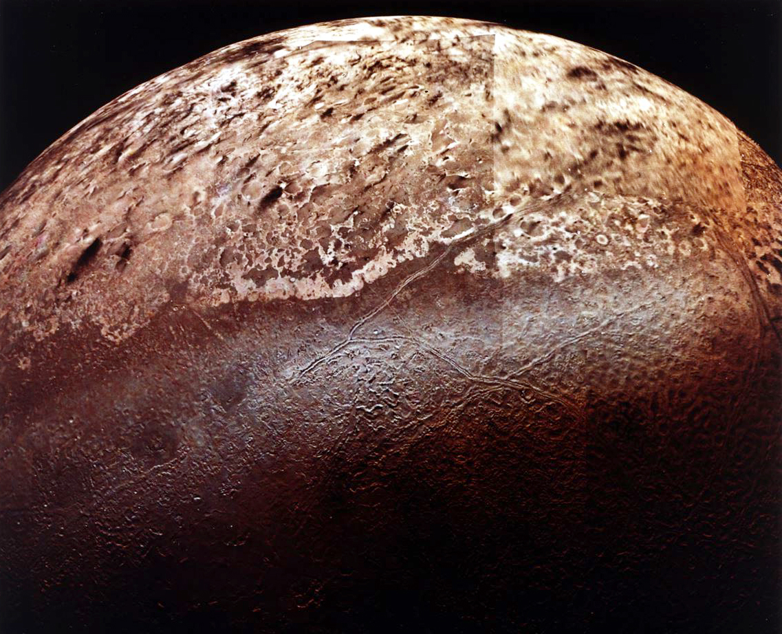 Voyager 2 image showing the southern hemisphere of Triton. At 2,700 km diameter, Triton is Neptune's largest satellite. This image was made using about a dozen Voyager 2 frames. The large, pinkish colored south polar cap is at the top of the image. North of the cap the surface is generally darker and redder in color. This area exhibits a plethora of unusual morphologic features, including the long lineations at the center of the frame.